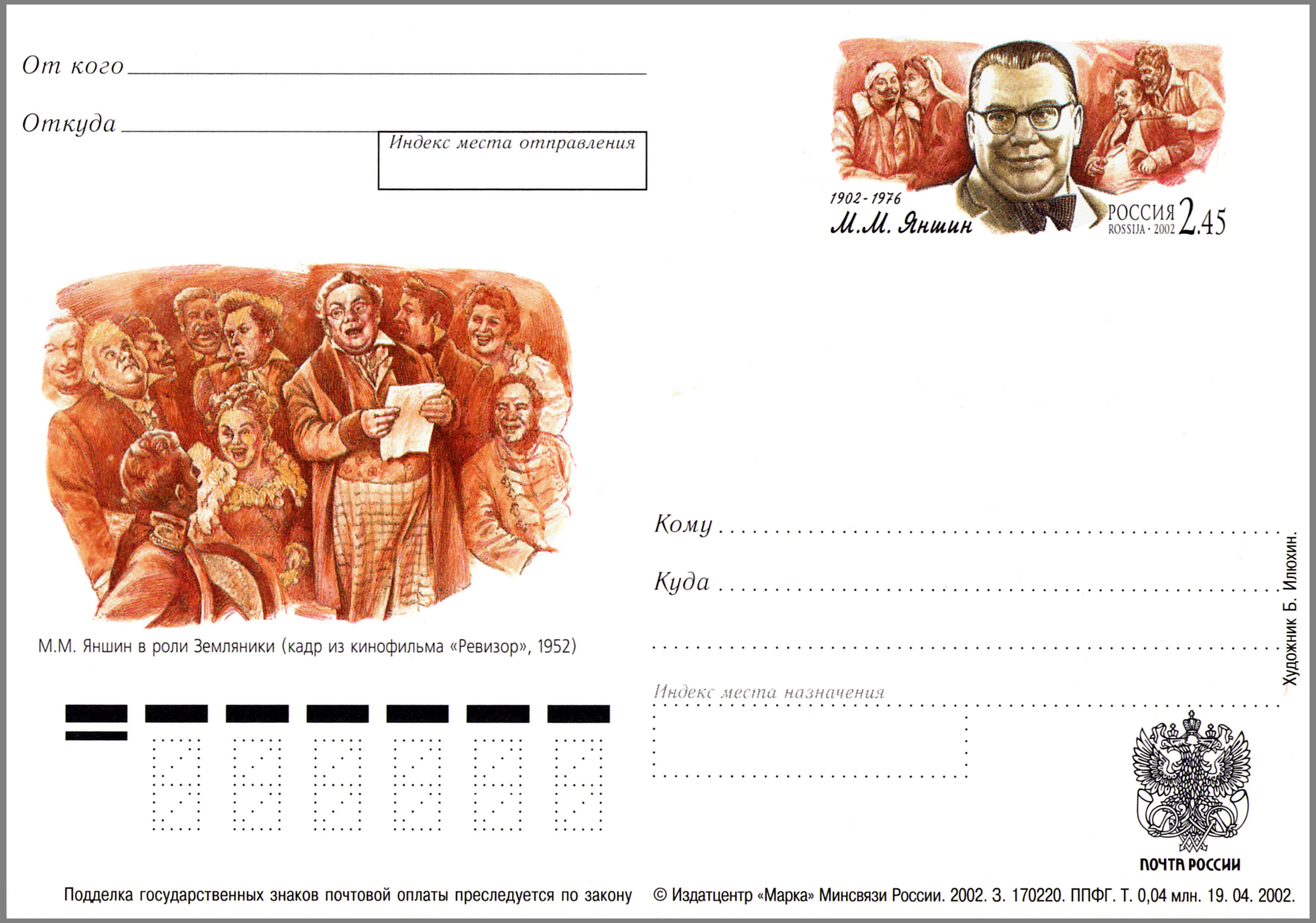 100th birth anniversary of Mikhail Yanshin (1902—1976), a Soviet cinema and theater actor, a stage director. The postal stationery card with the imprinted commemorative stamp, Russia, 29 July 2002, PTC Marka Catalogue No 124-окр/02, Michel No PSo116. Coated paper. Offset printing. Size of the postal card: 105×148 mm. Print run: 40,000. The commemorative stamp (2.45 ₽): the portrait of Mikhail Yanshin; on the left: a scene from the film Twelfth Night (USSR, Lenfilm, 1955, after the play of the same name by William Shakespeare), M. Yanshin as Sir Toby Belch; on the right: a scene from the play An Ardent Heart by Alexander Ostrovsky. The illustration: a scene from the film The Government Inspector (USSR, Mosfilm, 1952, after the play of the same name by Nikolai Gogol), M. Yanshin (with a sheet of paper in his hand) as Artemy Fillipovich Zemlyanika.